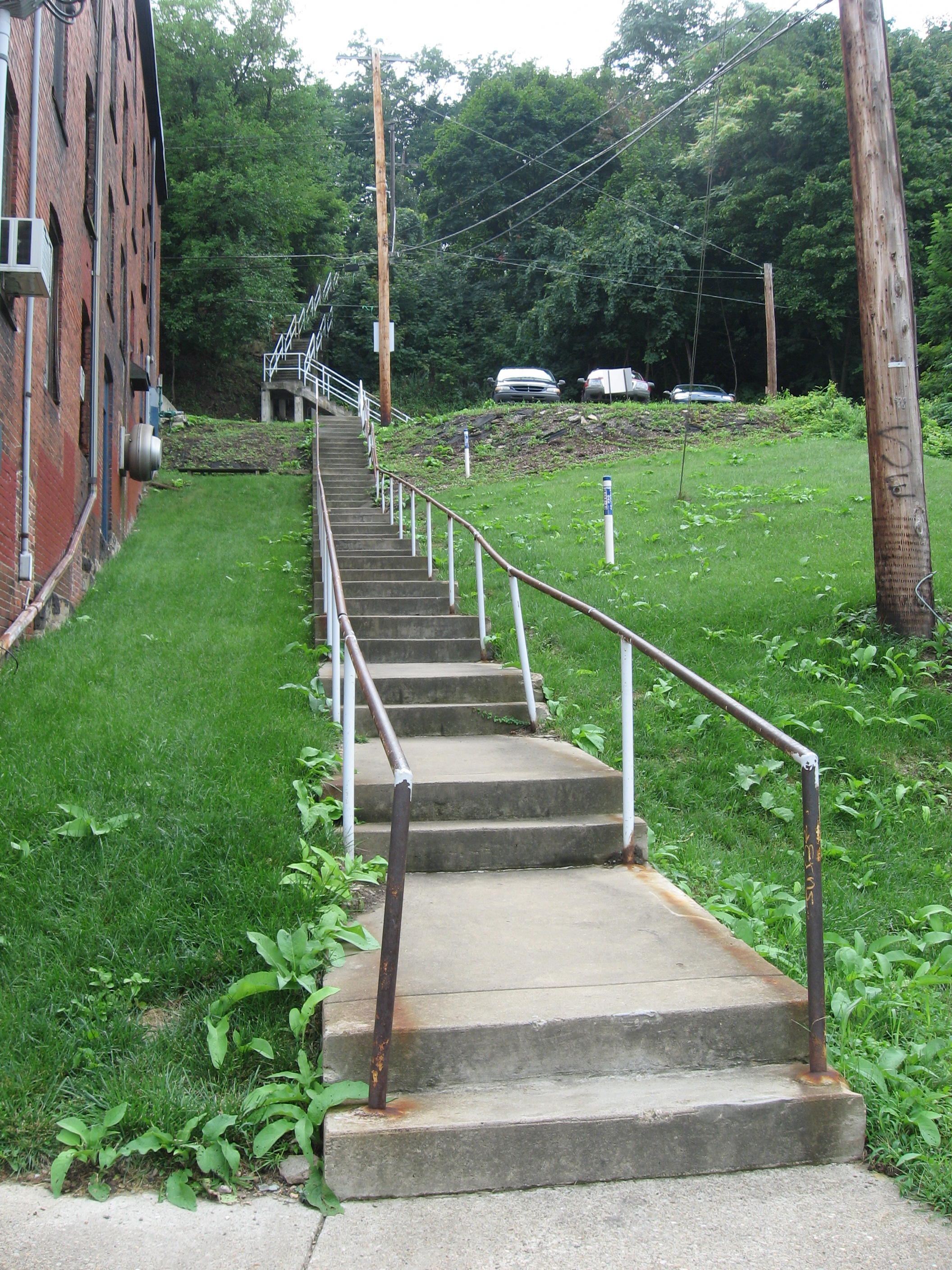 Example of Steps of Pittsburgh in the South Side neighborhood.